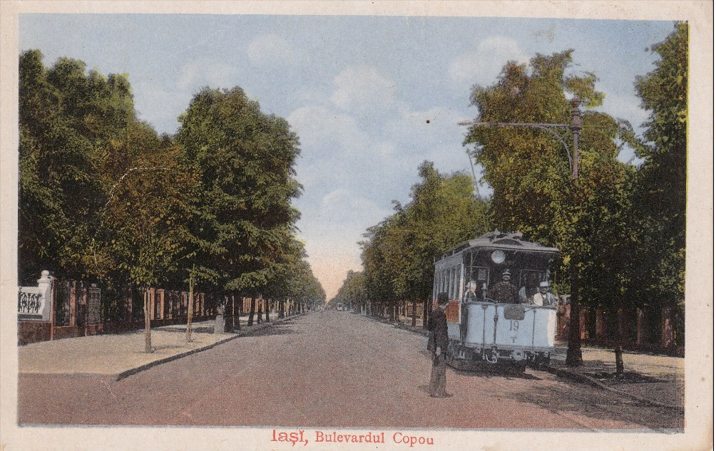 Copou Avenue, Iași, Romania